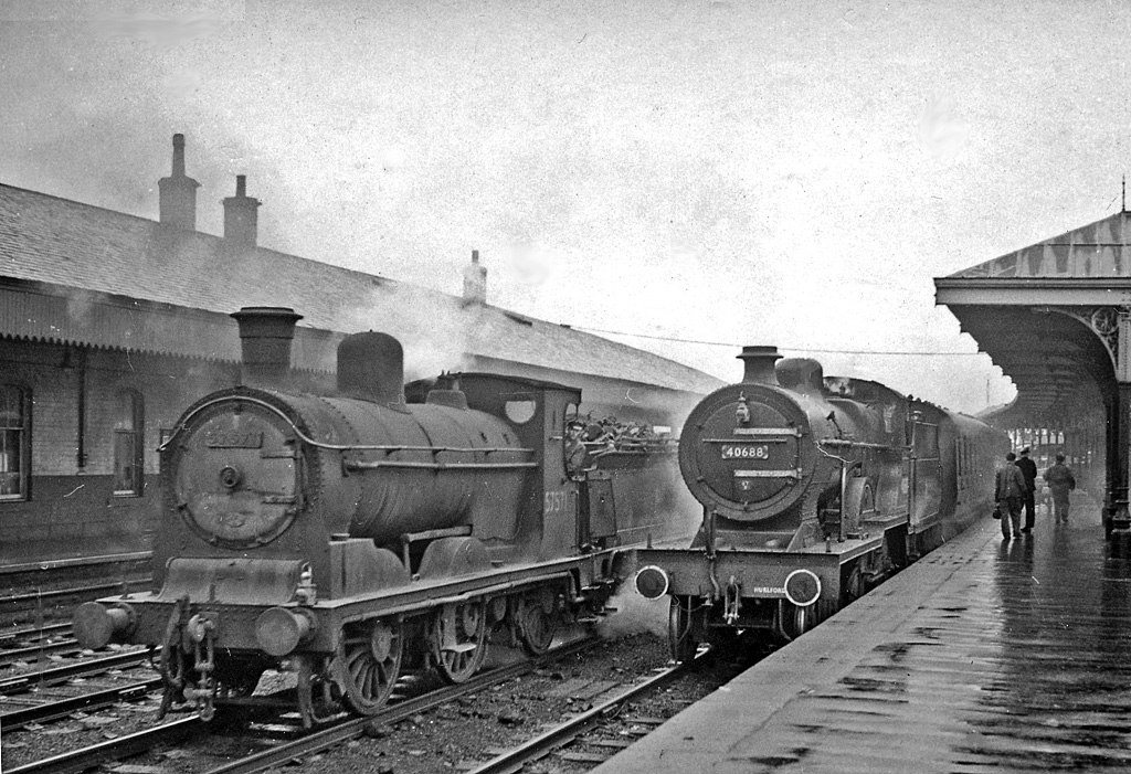 Local passenger and goods trains at Kilmarnock Station in 1957. View east, towards Dumfries and Carlisle by the main line, also Muirkirk; ex-Glasgow & South Western. The local is the 17.15 to Glasgow St Enoch, with LMS 2P 4-4-0 No. 40688; the Up empties has ex-Caledonian 3F 0-6-0 No. 57571 built in 1899. Note the white-painted features on the 4-4-0, characteristic of locomotives repaired at St Rollox Works.(It was raining, as usual).